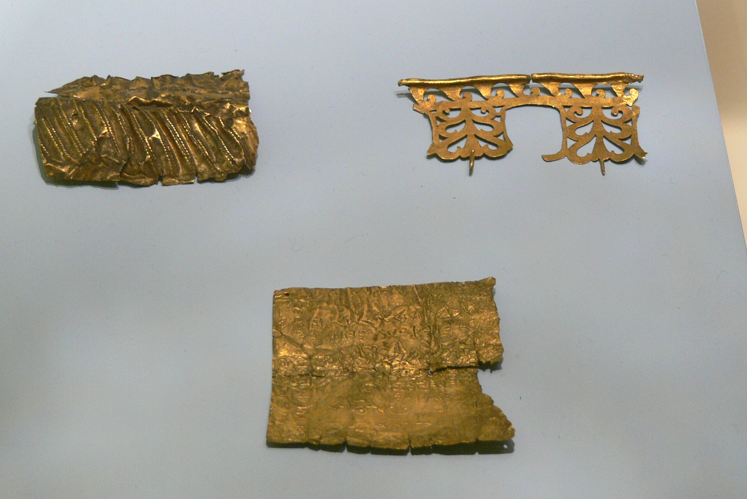 German National Museum ( Nuremberg / Germany ). Gnostic gold amulet with Greek inscription and magic symbols. Ca. 260 AD, Lauingen ( Bavaria ).